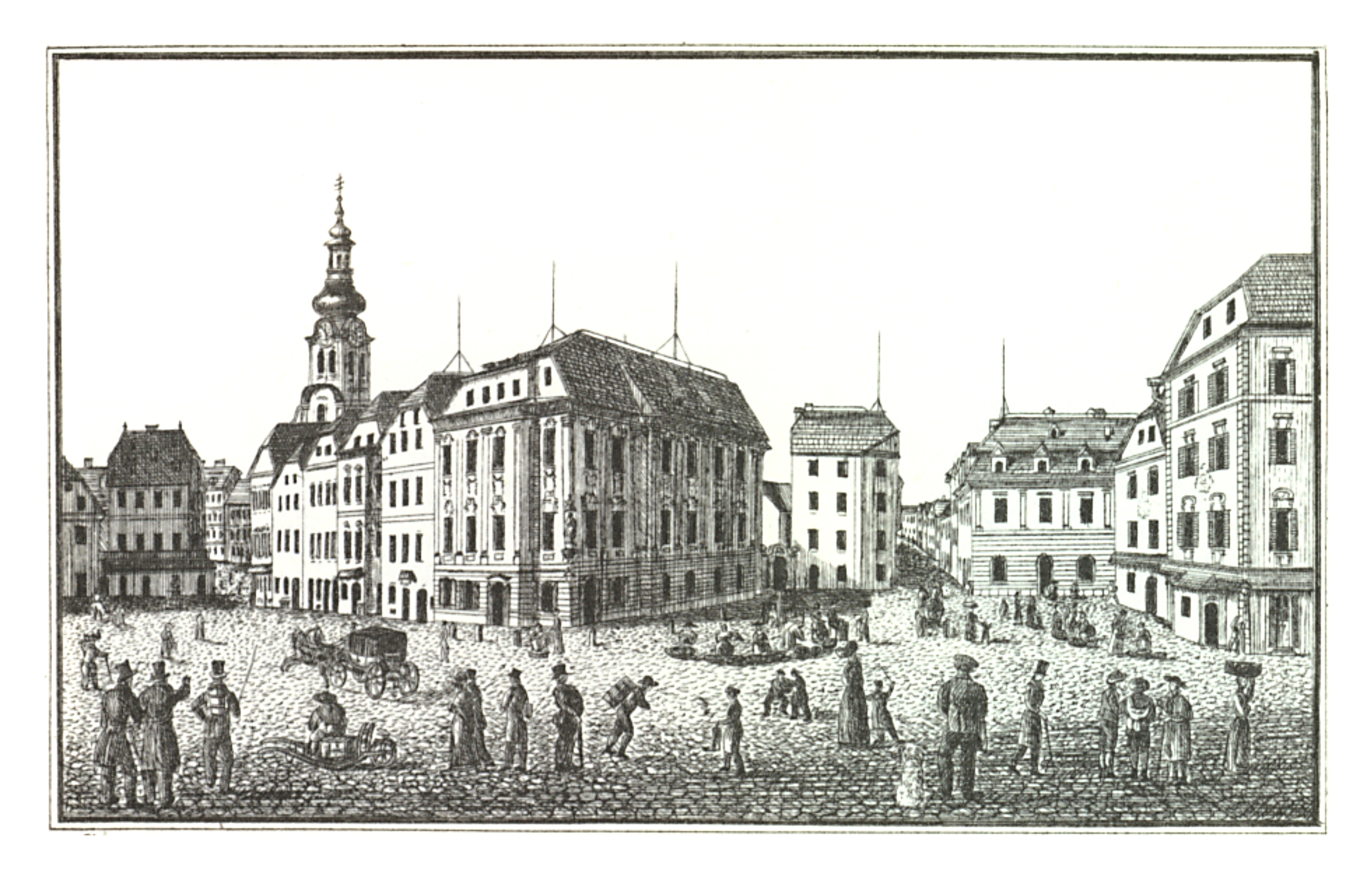 J. F. Kaiser - lithographirte Ansichten der Steyermärkischen Städte, Märkte und Schlösser, Graz 1824-1833 Joseph Franz Kaiser (1786–1859) Alternative namesJ. F. KaiserDescription Austrian printer and editor Date of birth/death11 March 178619 September 1859Location of birth/deathGraz (Steiermark)GrazAuthority control VIAF: 30629353 LCCN: n87141671 GND: 129880159 WorldCat . Scanprojekt Bundesdenkmalamt Österreich This scan or this PDF-file was created within the Austrian Wikipedia-project Denkmalpflege Österreich (German only) supported by Wikimedia Germany and Wikimedia Austria as part of the Wikipedia community-project to collect public domain documents from the library of the Heritage Monuments Board of Austria. This document describes or depicts an object which is located in Austria today. Send requests for uncompressed scans to Hubertl. This work is in the public domain in the United States, and those countries with a copyright term of life of the author plus 100 years or less. This file has been identified as being free of known restrictions under copyright law, including all related and neighboring rights.